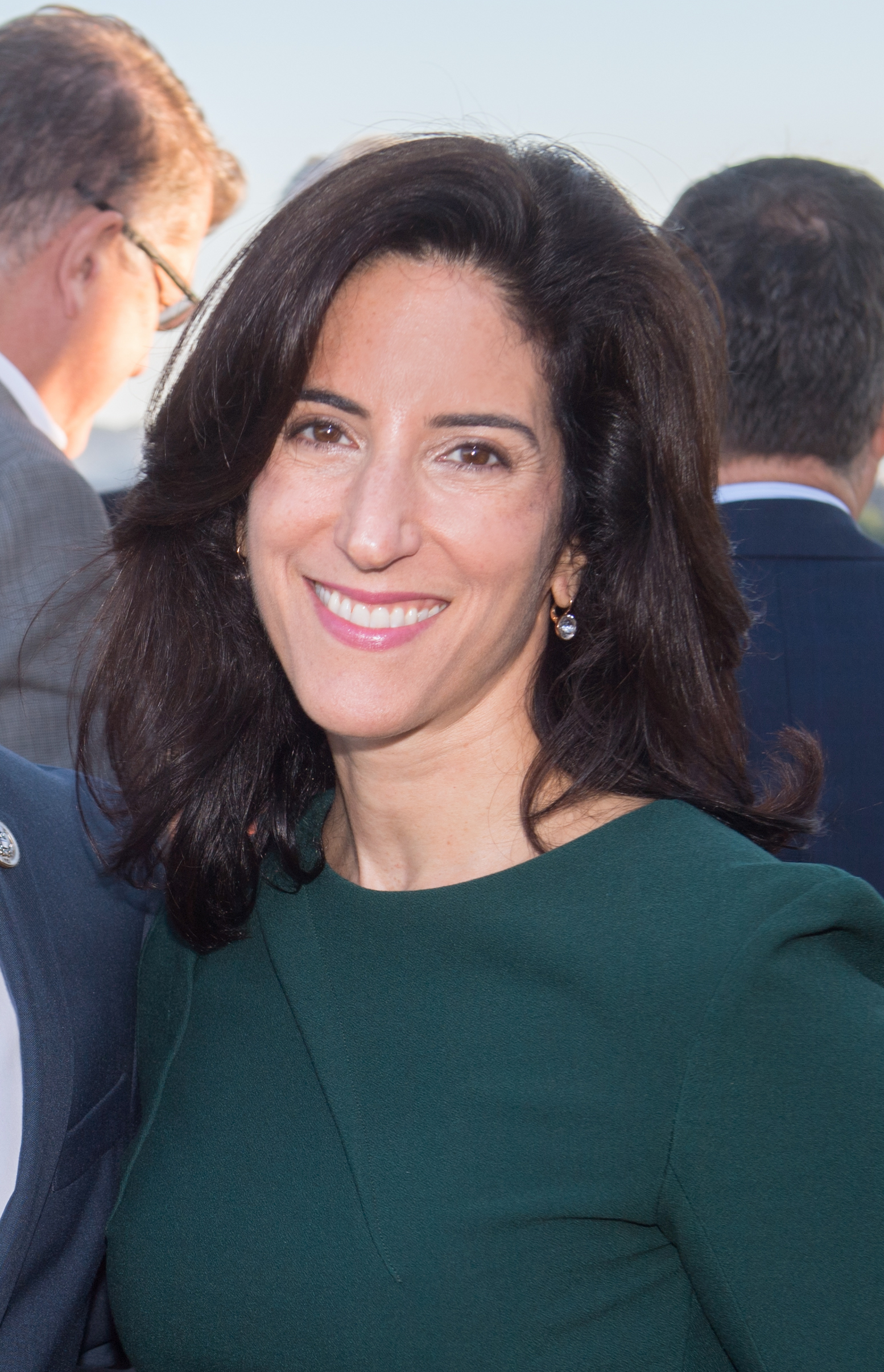 US Representative Brendan Boyle (L) and FT Global Business Columnist, Rana Foroohar (R)